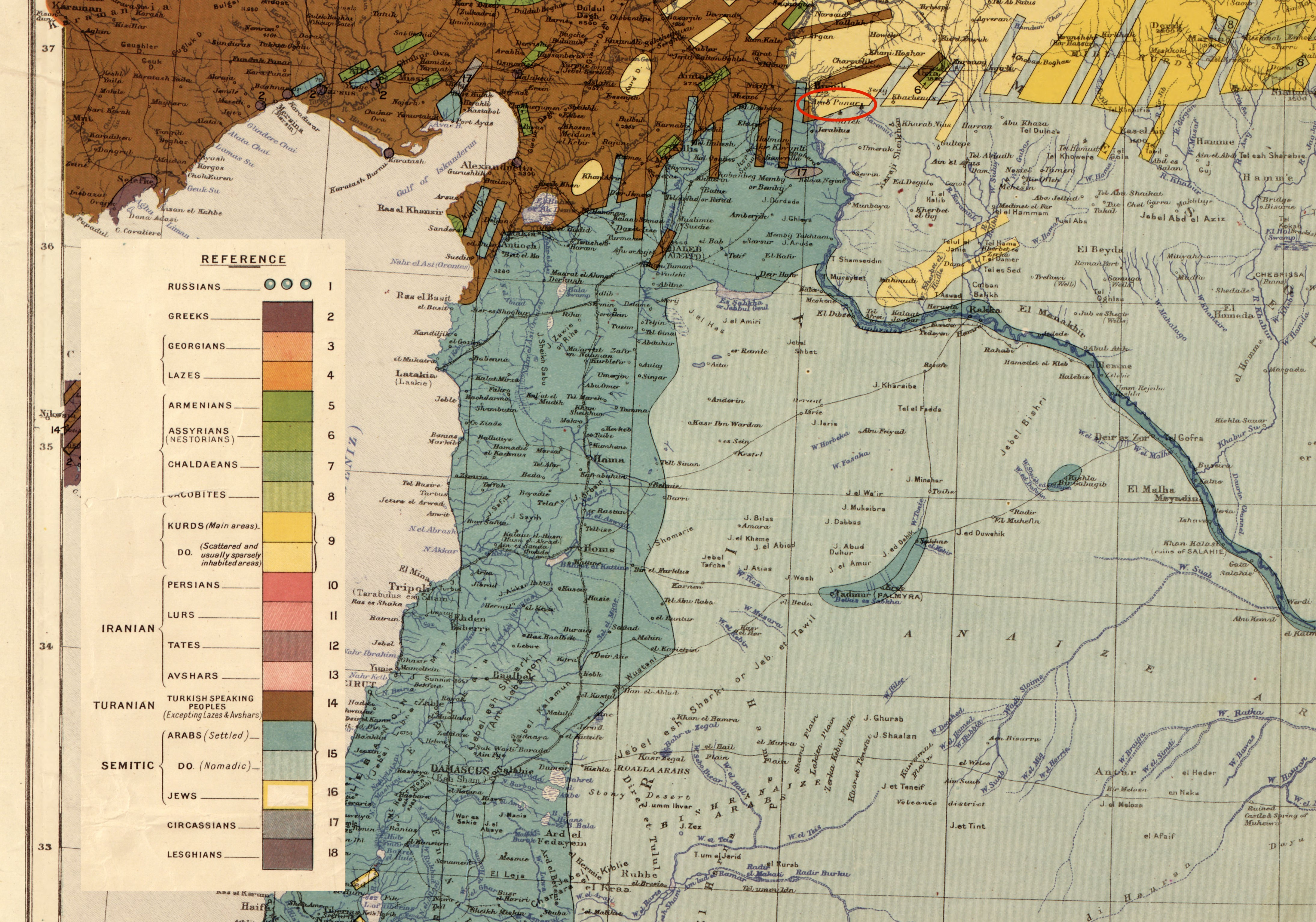 British ethnographic map shows ethnic distribution in Syria. Arab punar (or Ayn al-Arab) in red eclipse is shown with Arab presence in and around the town and Kurdish presence to the north